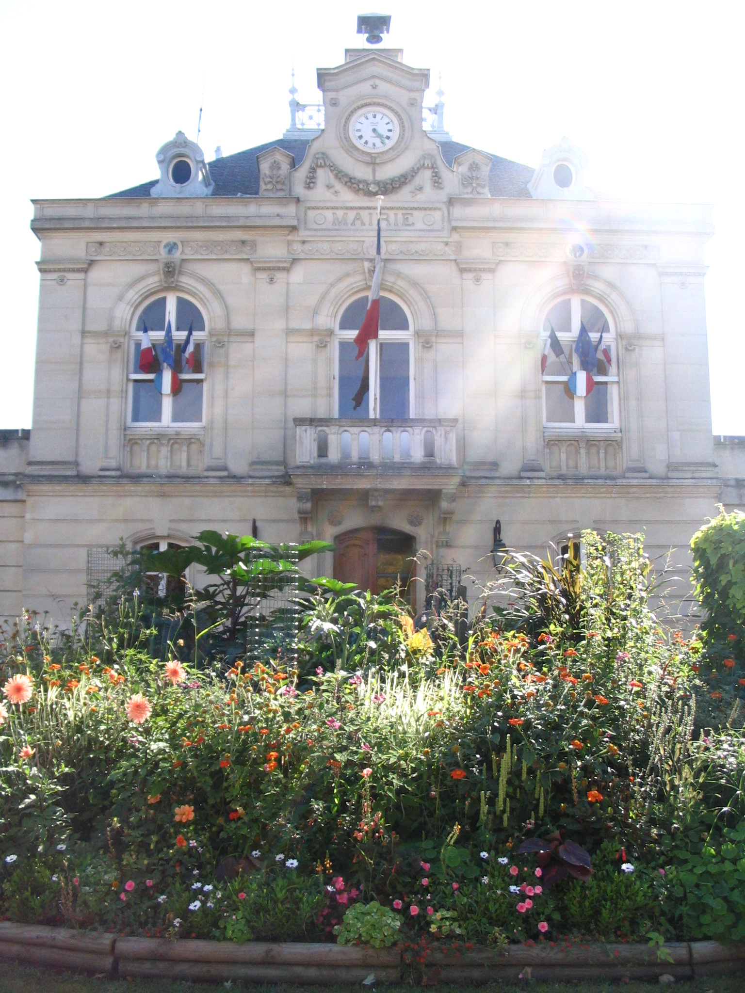 The town hall of Fontenay-aux-Roses, Hauts-de-Seine, France.